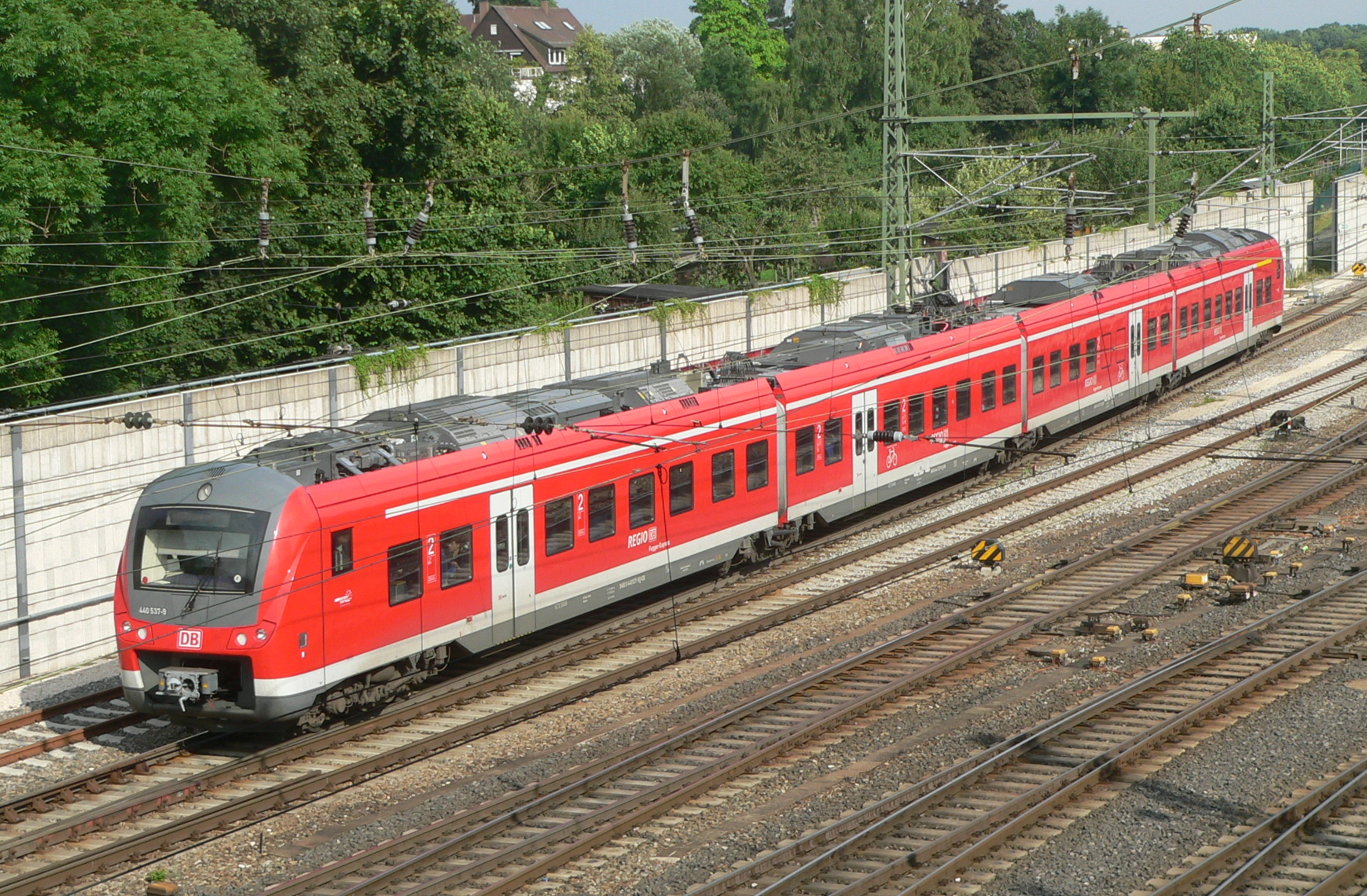 DBAG class 440 in Ulm, Germany